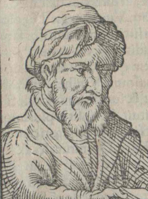 Portrait of Petrus Dasypodius